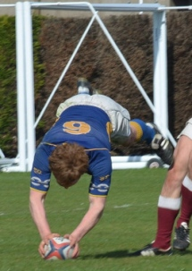 Gordon smith sealing promotion